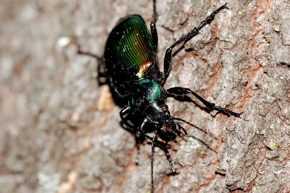 Calosoma sycophanta, Aigues-Mortes, Camargue, France